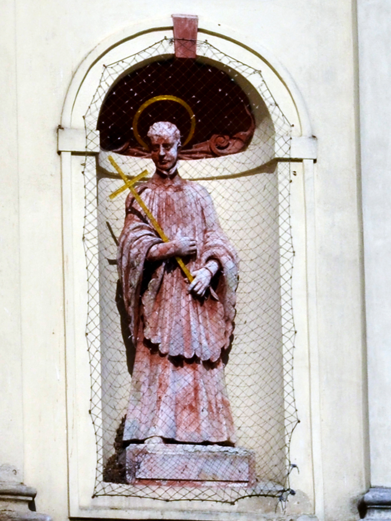 Saint Stanislaus Kostka, sculpture by italian baroque sculptor Antonio Laghi, church of Ignatius of Loyola, Jihlava